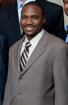 Chicago Bulls player Lindsey Hunter visits the White House with his team before the game vs. Washington Wizards.